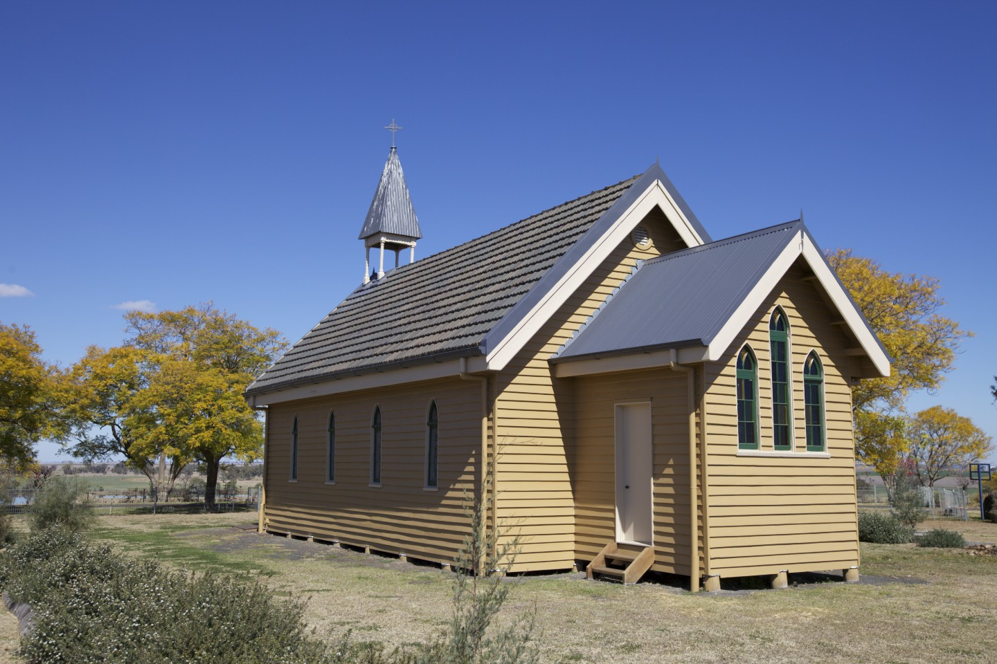 Jimbour is the main homestead on one of the earliest stations established on the Darling Downs, is important in demonstrating the pattern of early European exploration and pastoral settlement in Queensland, Australia.